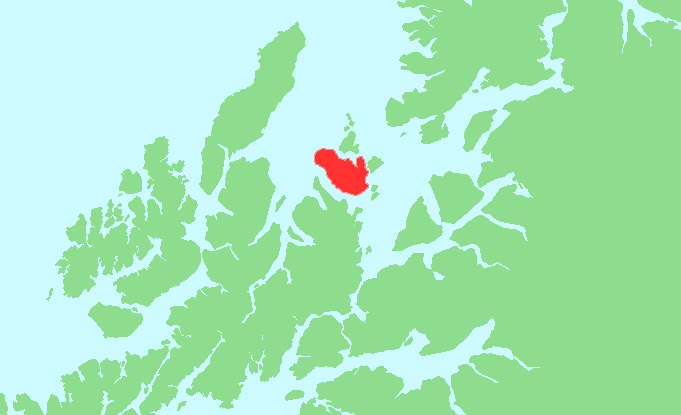 Locator map of Grytøya, Troms, Norway